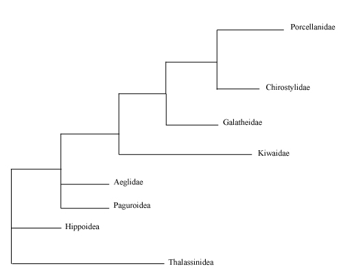 Cladogramm of the Crustacean taxon Anomura